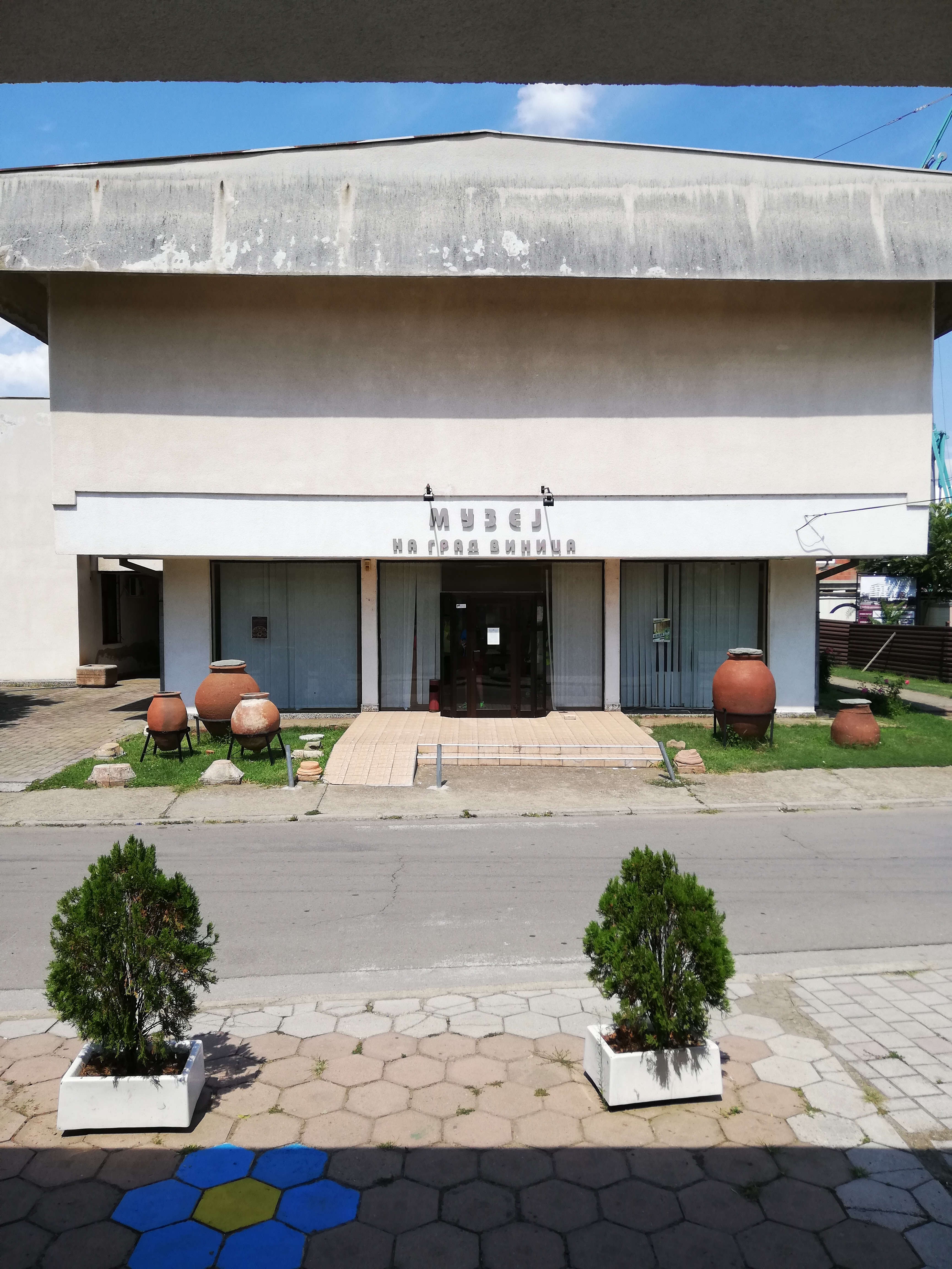 Wiki city tour in Kocani